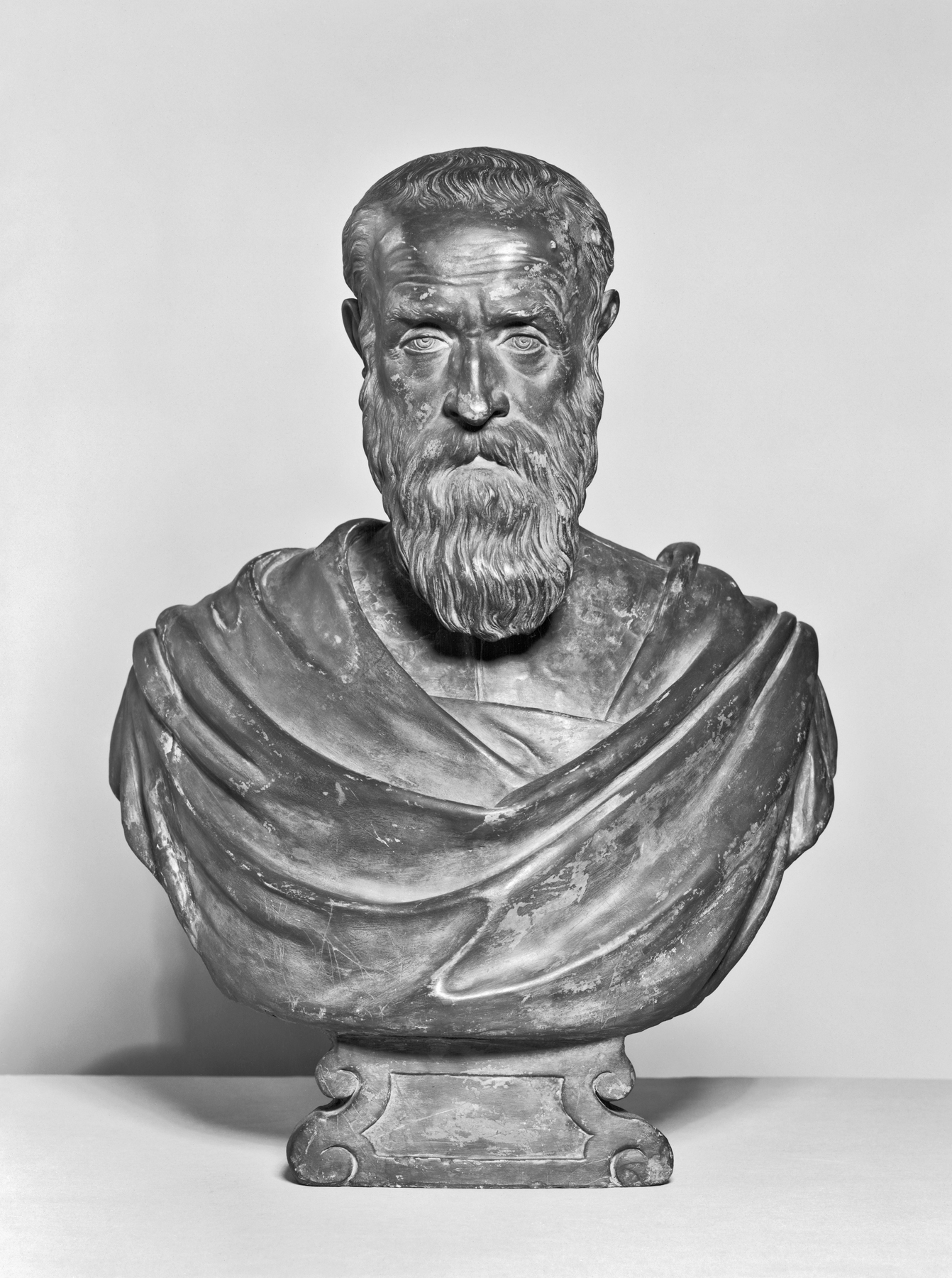 Alessandro Vittoria was the leading sculptor of Venice during the late 16th century. He was particularly famous for his elegant portrait busts of Venetian dignitaries carved in the ancient style. His marble bust of Marino Grimani, elected doge (head of the Venetian Republic) in 1595, is now in the Palazzo Venezia, Rome. This terracotta was apparently produced in the workshop to fill the demand for other versions; doges often needed multiple, less expensive versions of official portraits. Though the modeling is somewhat simplified, it conveys the artist's style. With a toga over a tunic of Venetian brocade, Marino Grimani has chosen to be represented as a modern version of an imperial Roman official. The dark coloring of the terracotta is intended to make it resemble bronze.